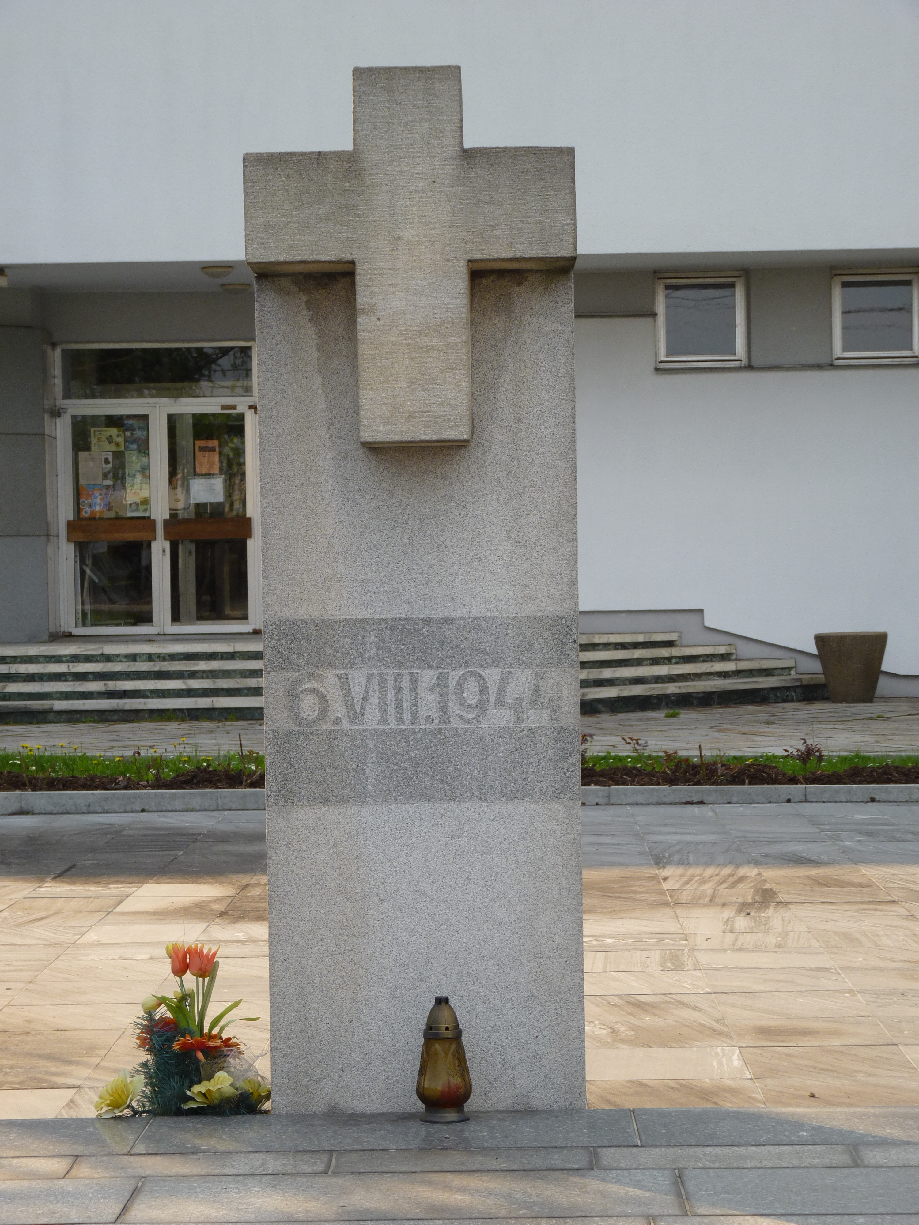 Životice tragedy Memorial. Životice (havířov), Karviná District, Moravian-Silesian Region, Czech Republic